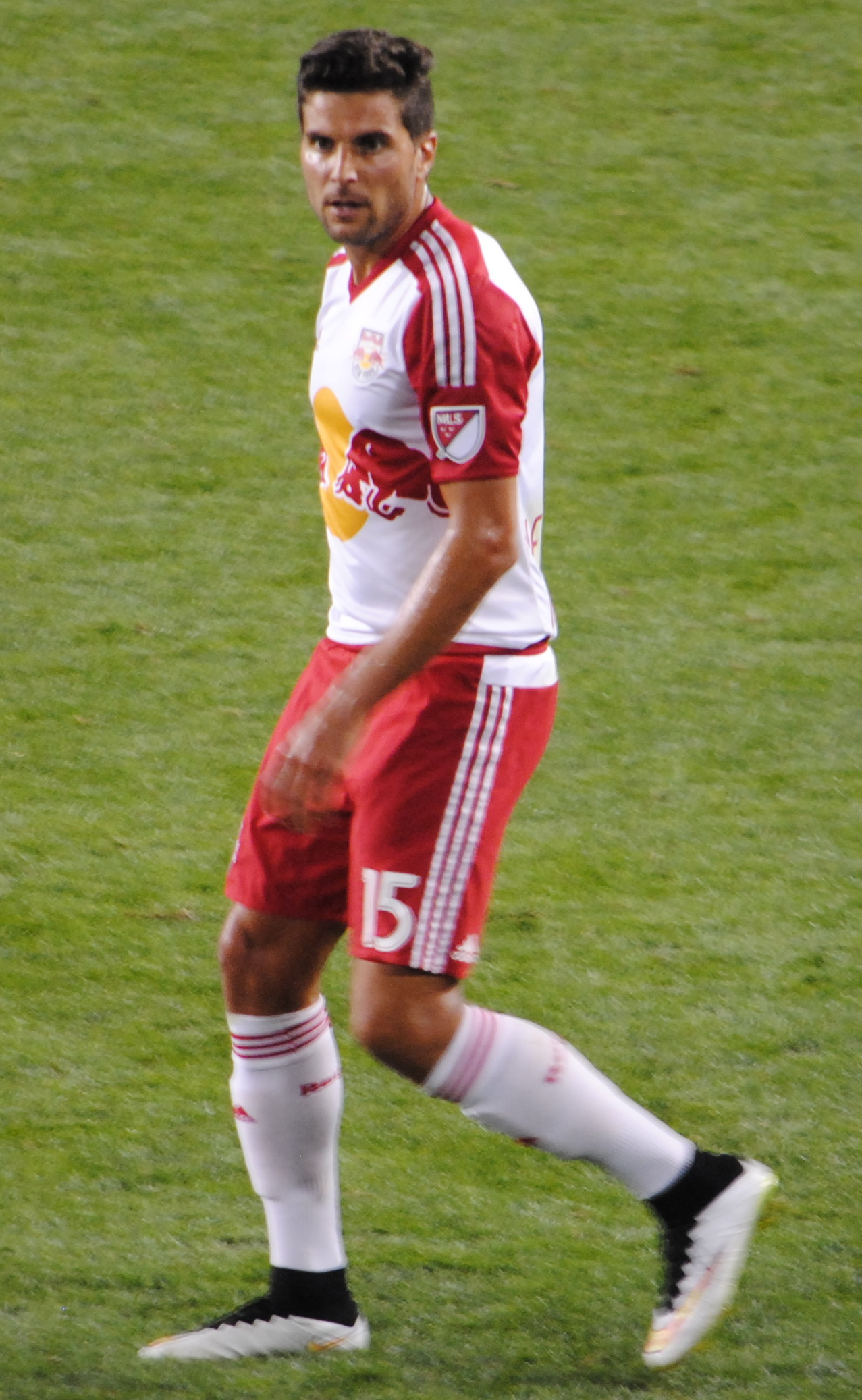 Zizzo Rbny